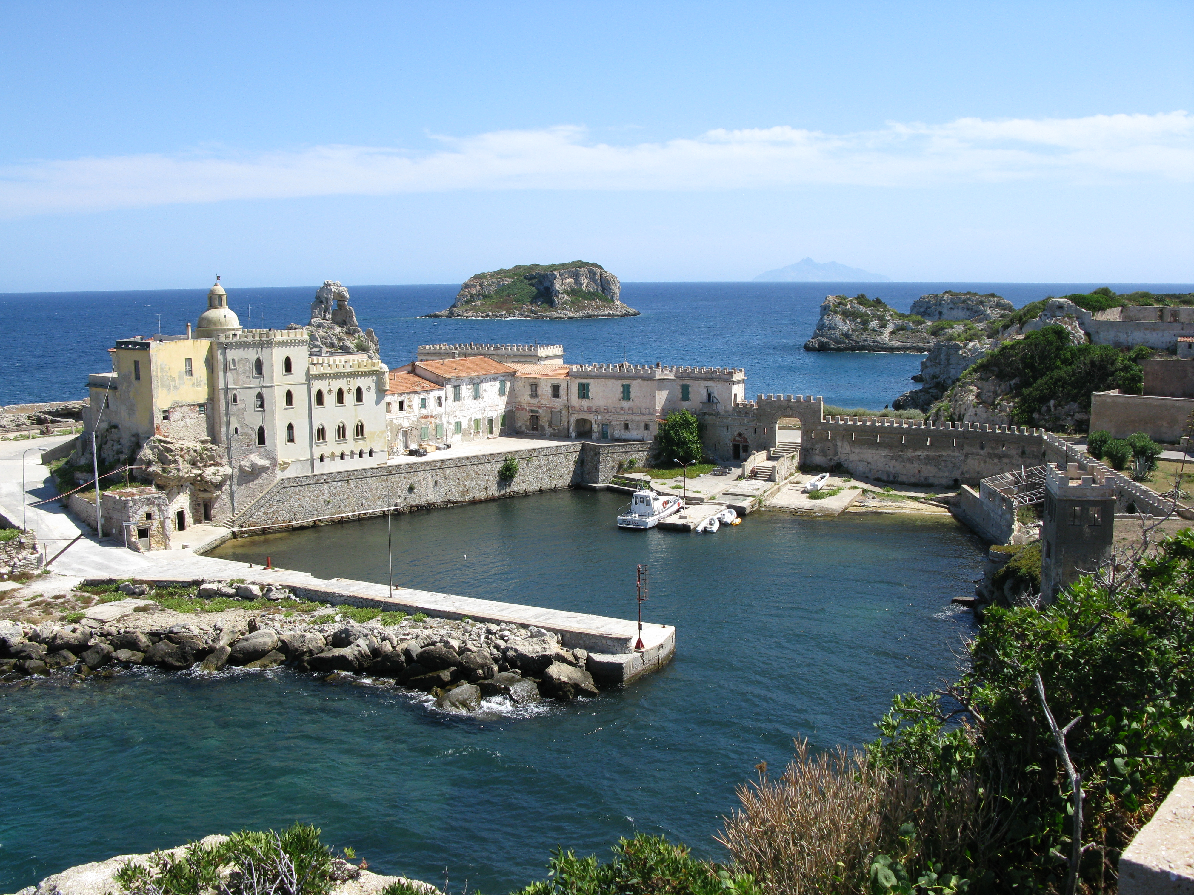 The harbour of Pianosa our team was based in during the project